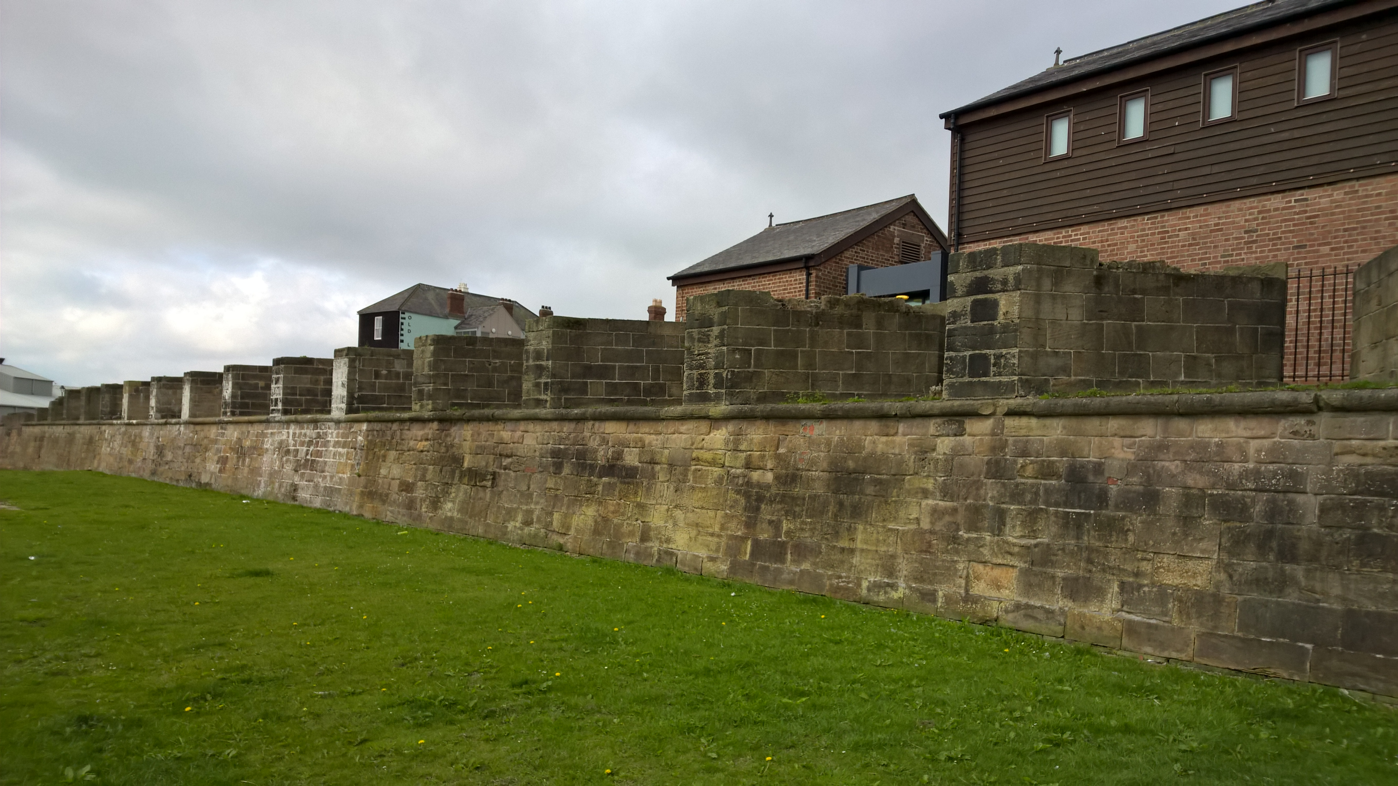 Clifford's Fort was built in 1672 to defend the River Tyne during the Dutch Wars